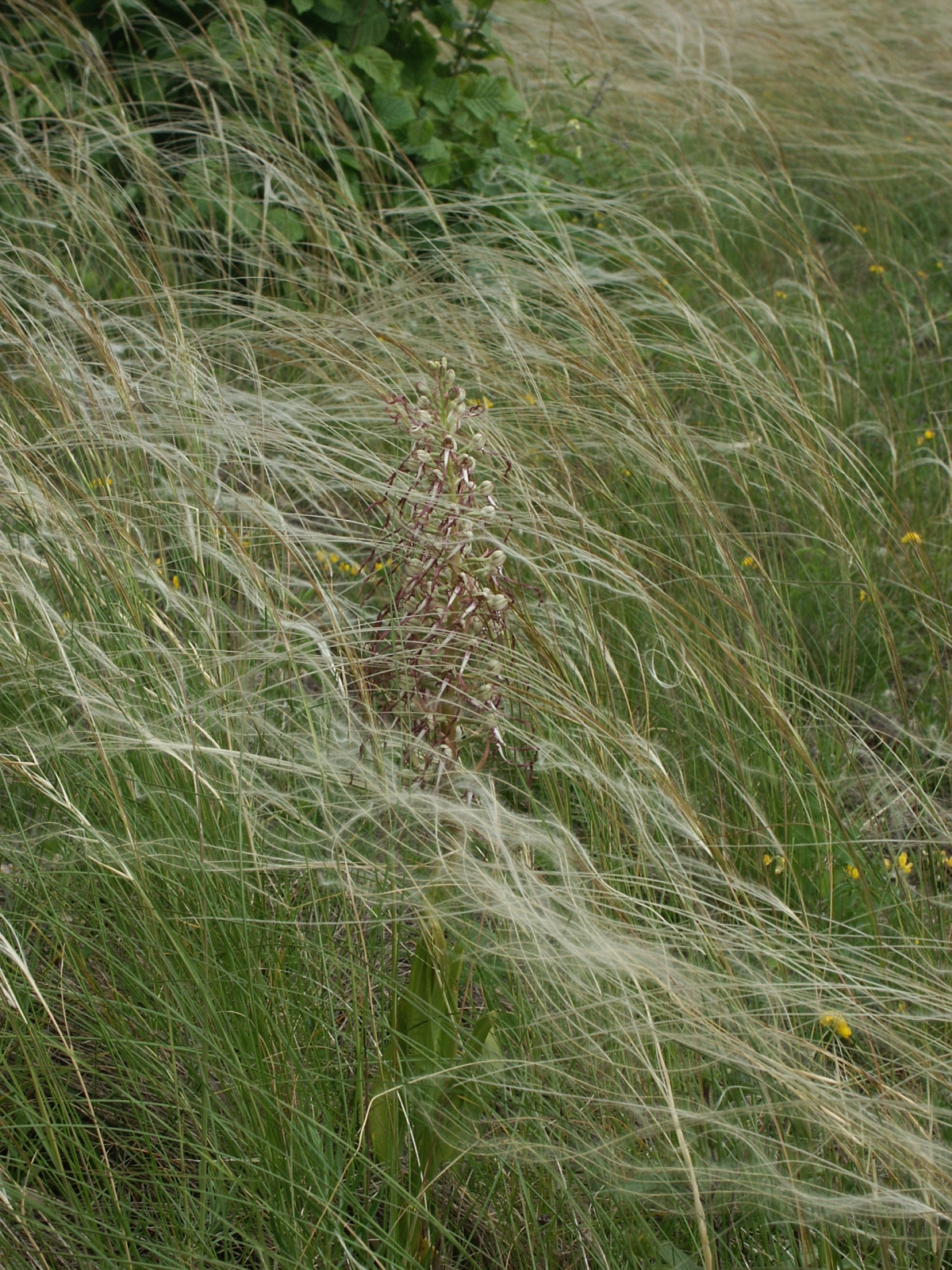 Himantoglossum hircinum between Stipa pennata, Tauberland, Germany